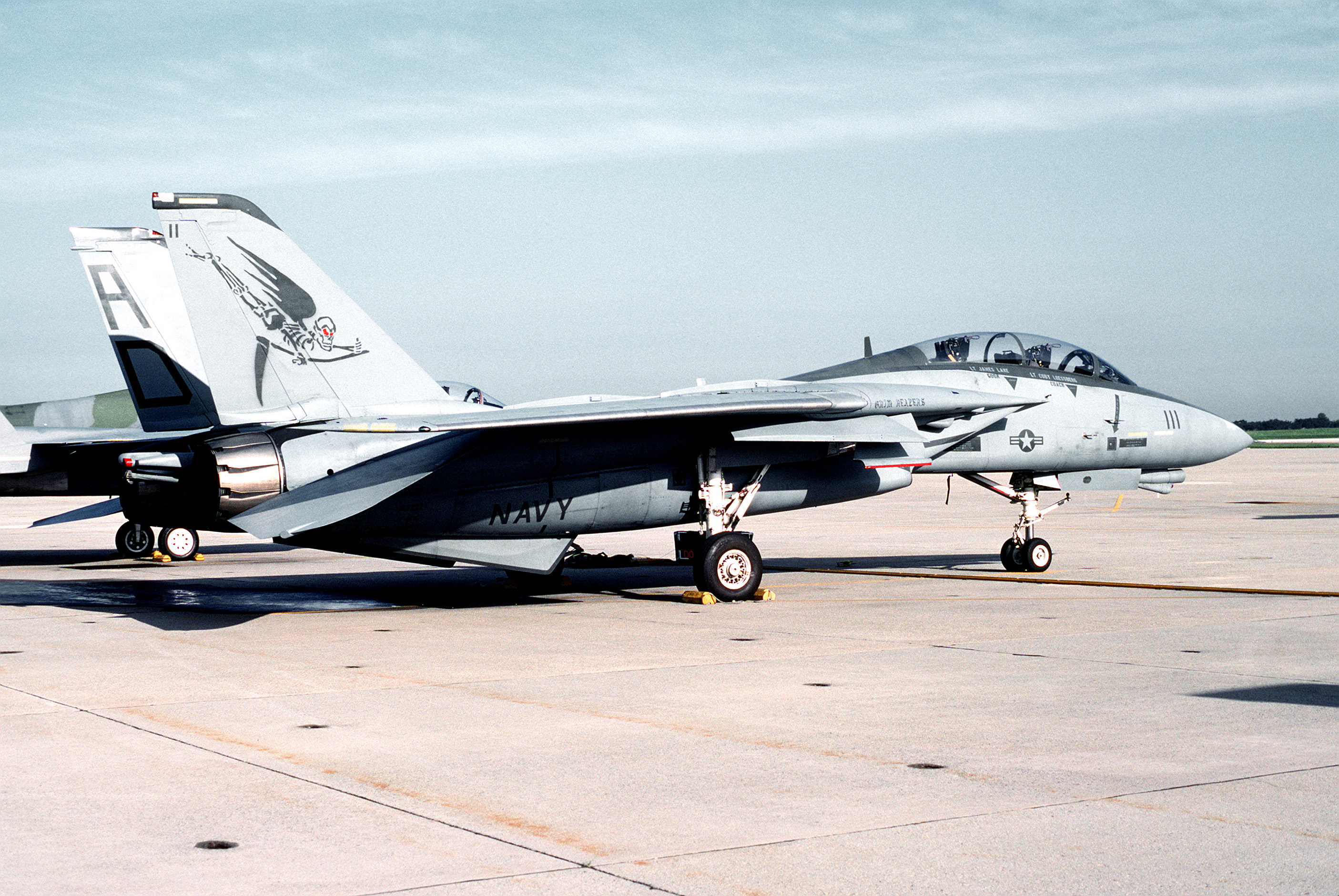 A right side view of an F-14B Tomcat aircraft of Fighter Squadron 101 (VF-101) parked on the flight line.Location: NAVAL AIR FACILITY ANDREWS AFB, MARYLAND (MD) UNITED STATES OF AMERICA (USA)